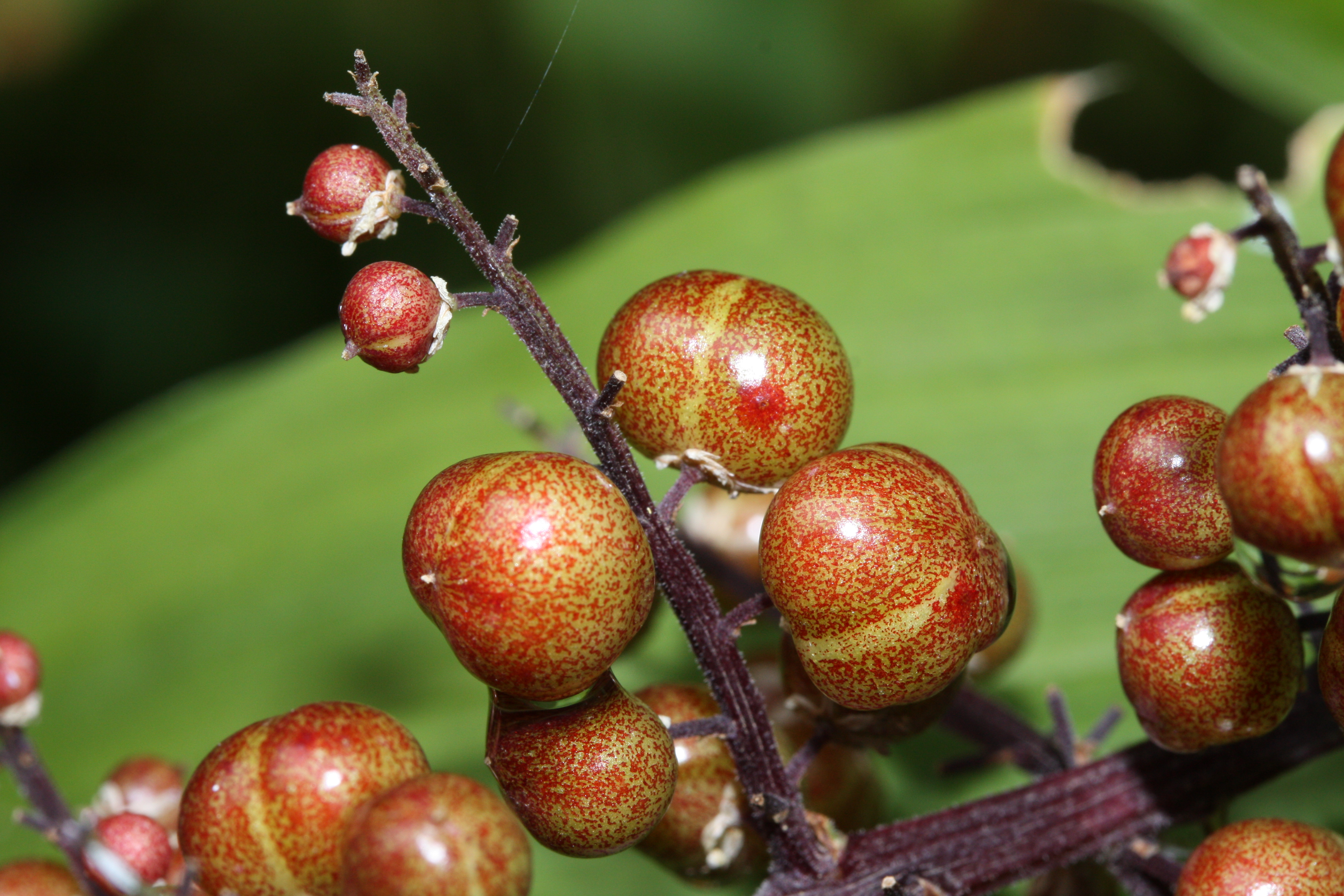 False False Spikenard, Western Solomon-plume, False Solomon's-seal, Feathery False Lily Of The Valley